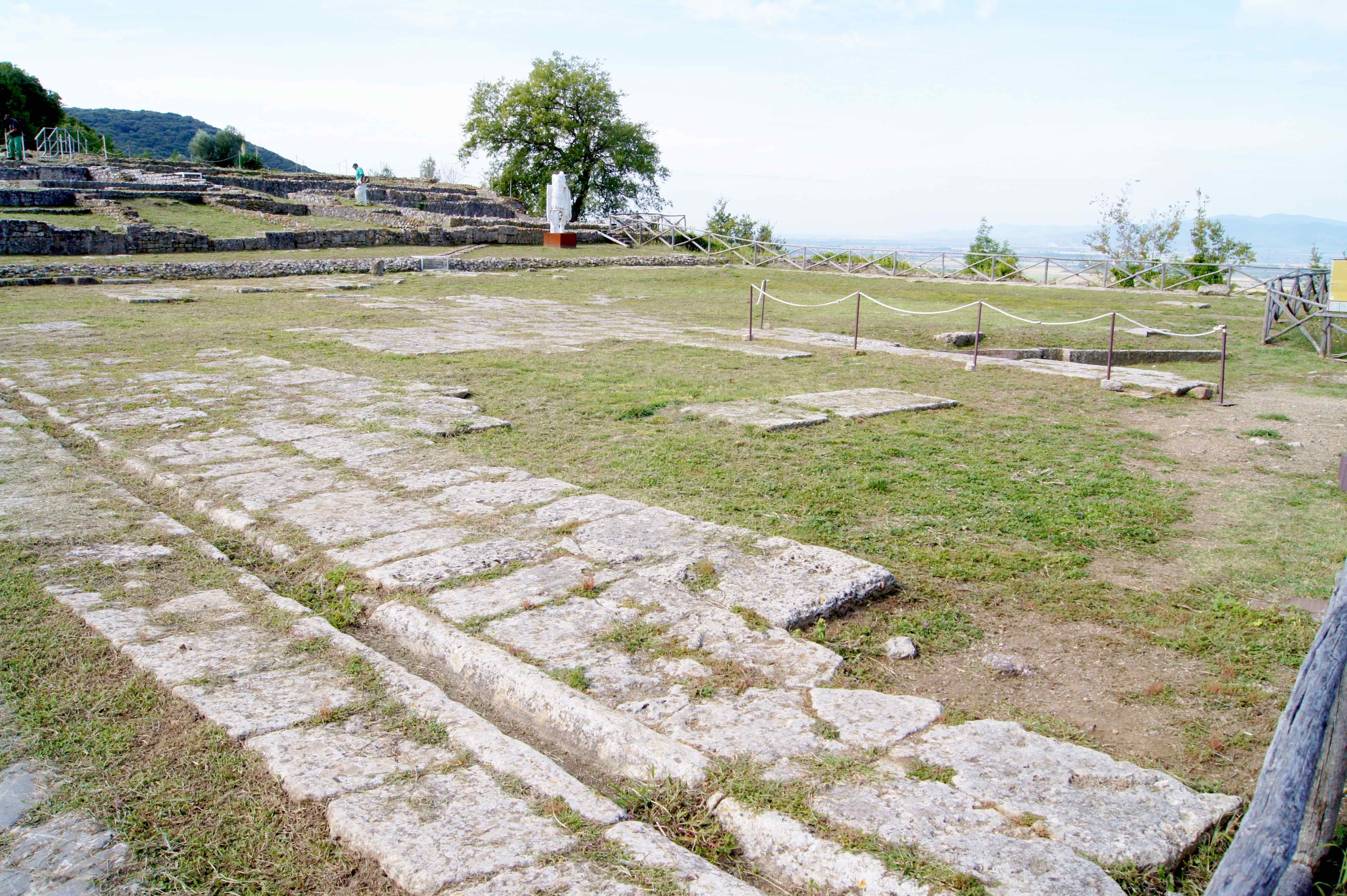 Forum